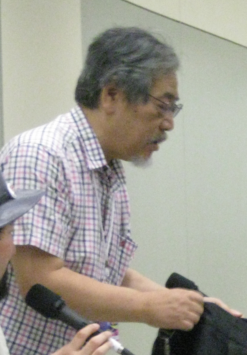 Ishiguro at Otakon 2009